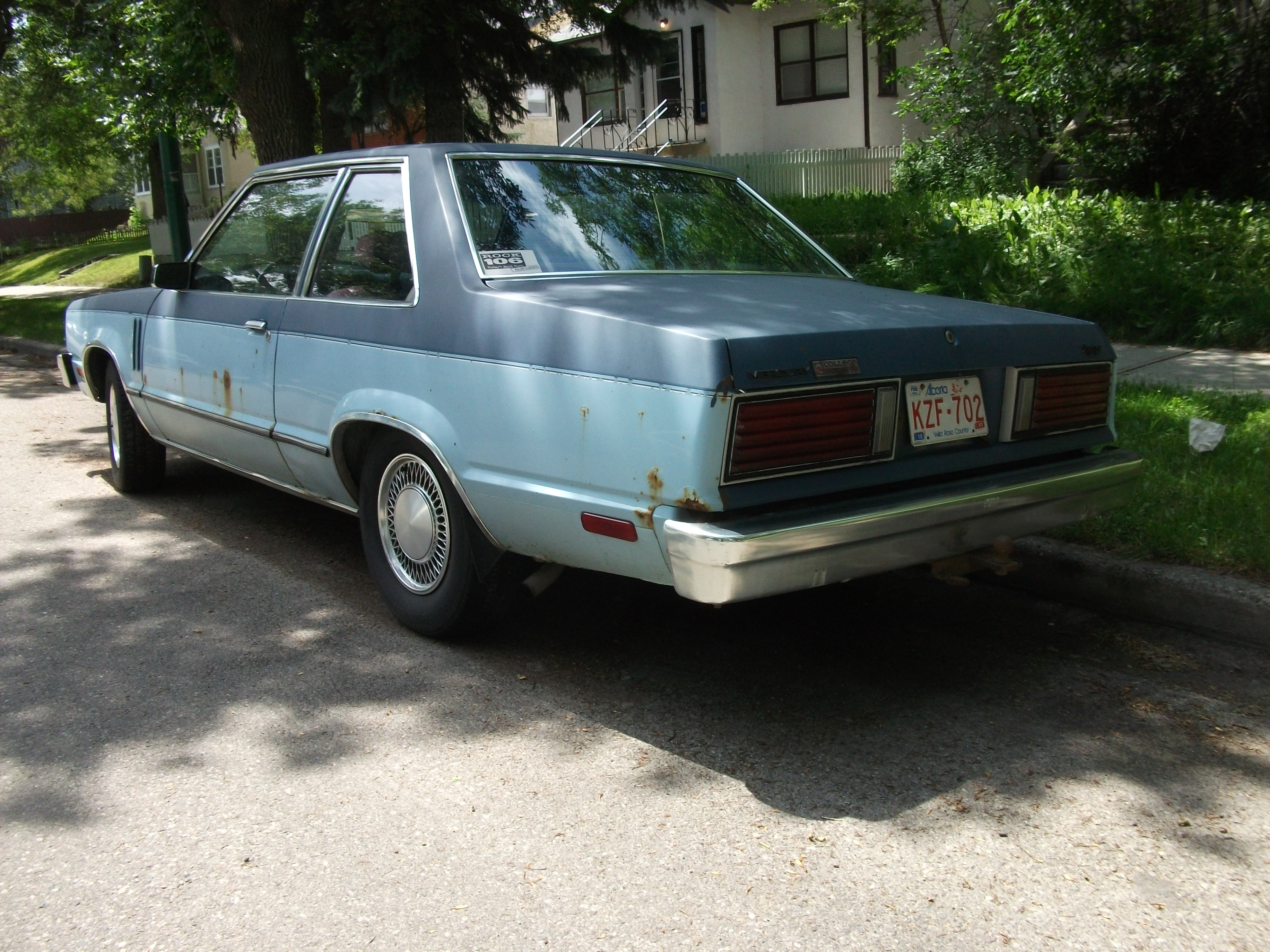 Rear 3/4 view of a late 1970s Mercury Zephyr 2-door sedan.